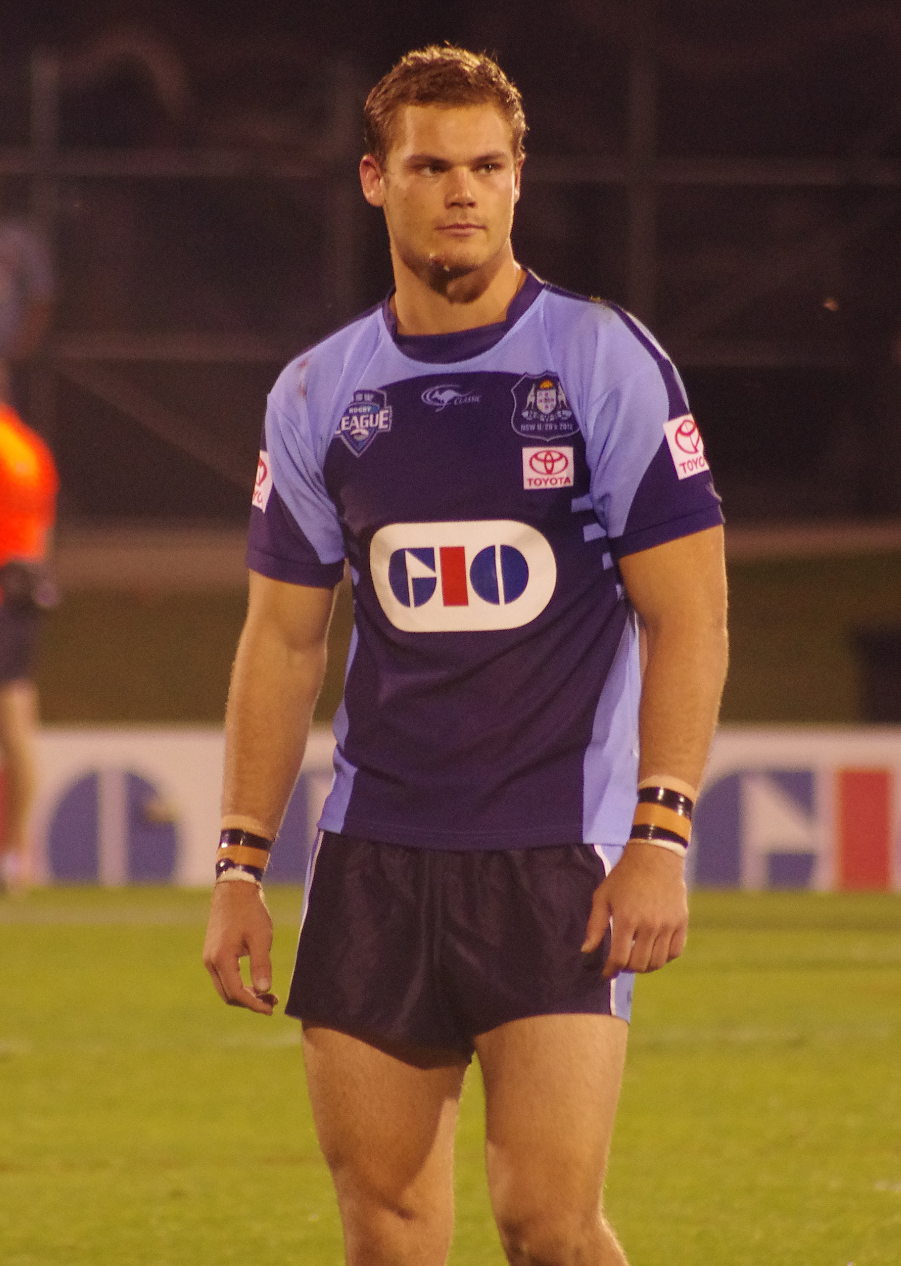 Cheyse blair representing NSW U20